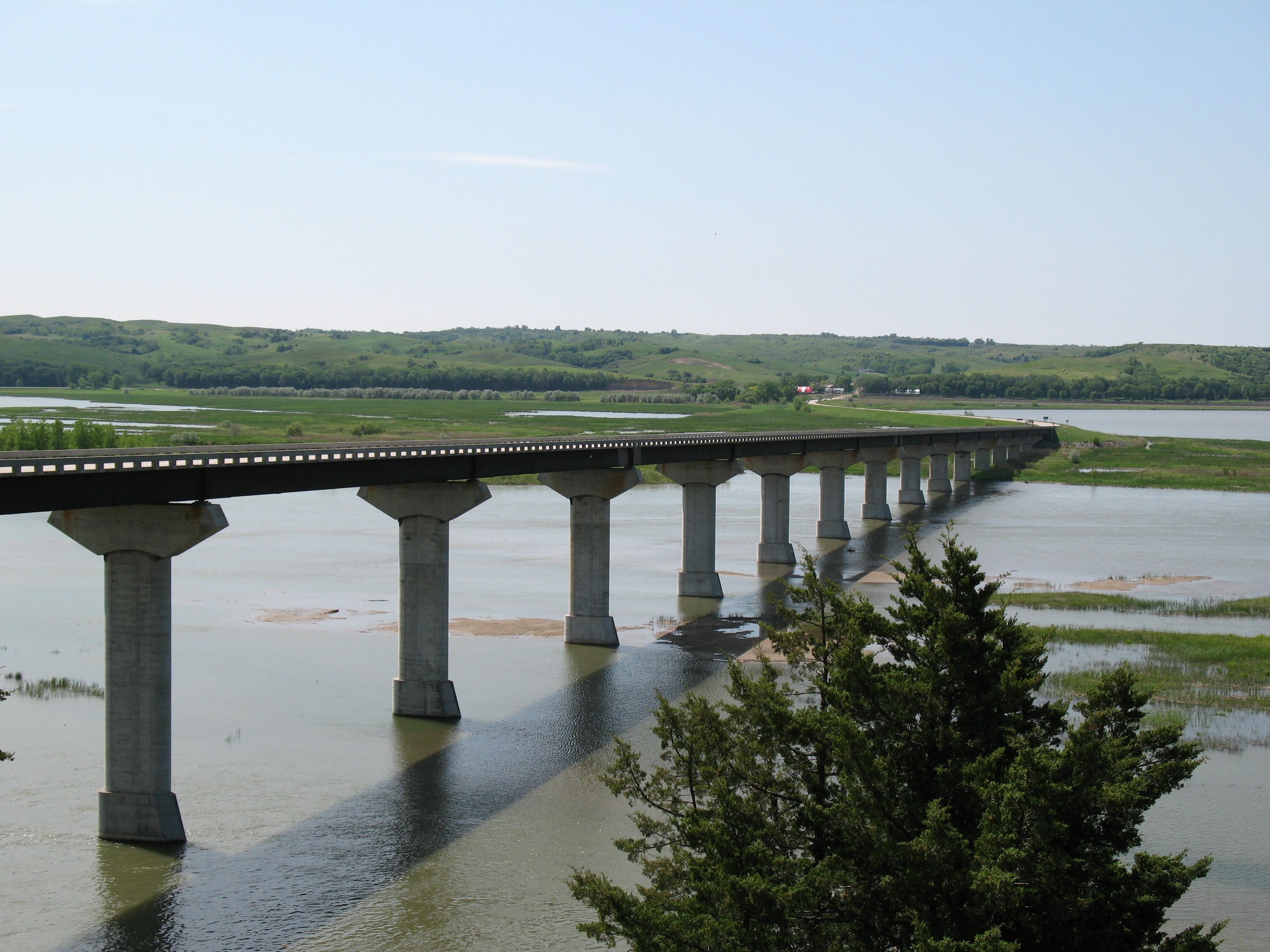 The Chief Standing Bear Memorial Bridge over the Missouri River. It connects Running Water, South Dakota with Niobrara, Nebraska.